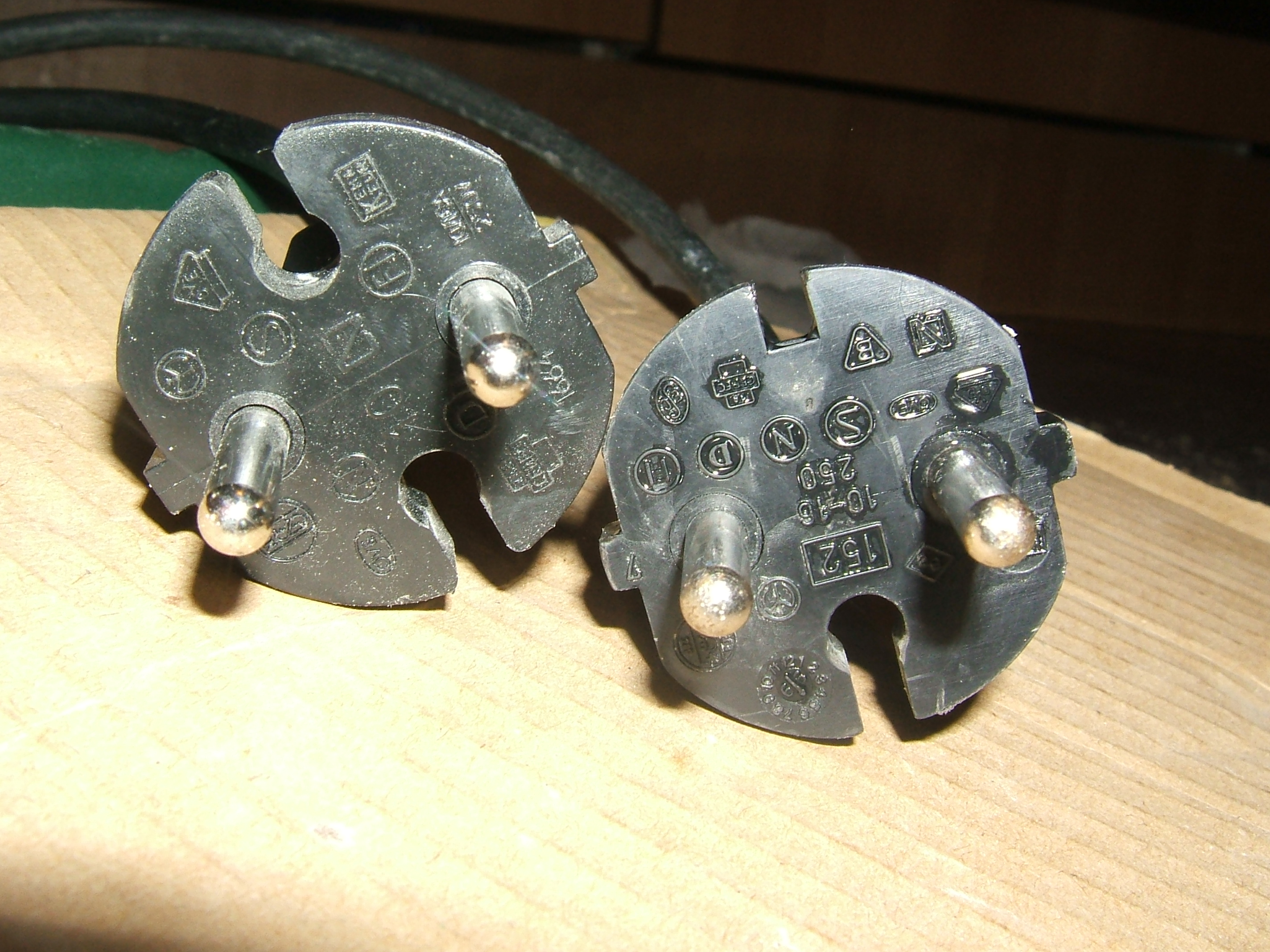 Two slightly different CEE 7/17 plugs. The left one can be inserted in both positions into an E-type socket. The right one fits only in one direction.